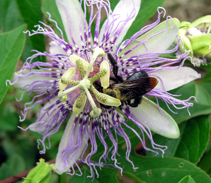 Passiflora incarnata Passion Flower pollination.